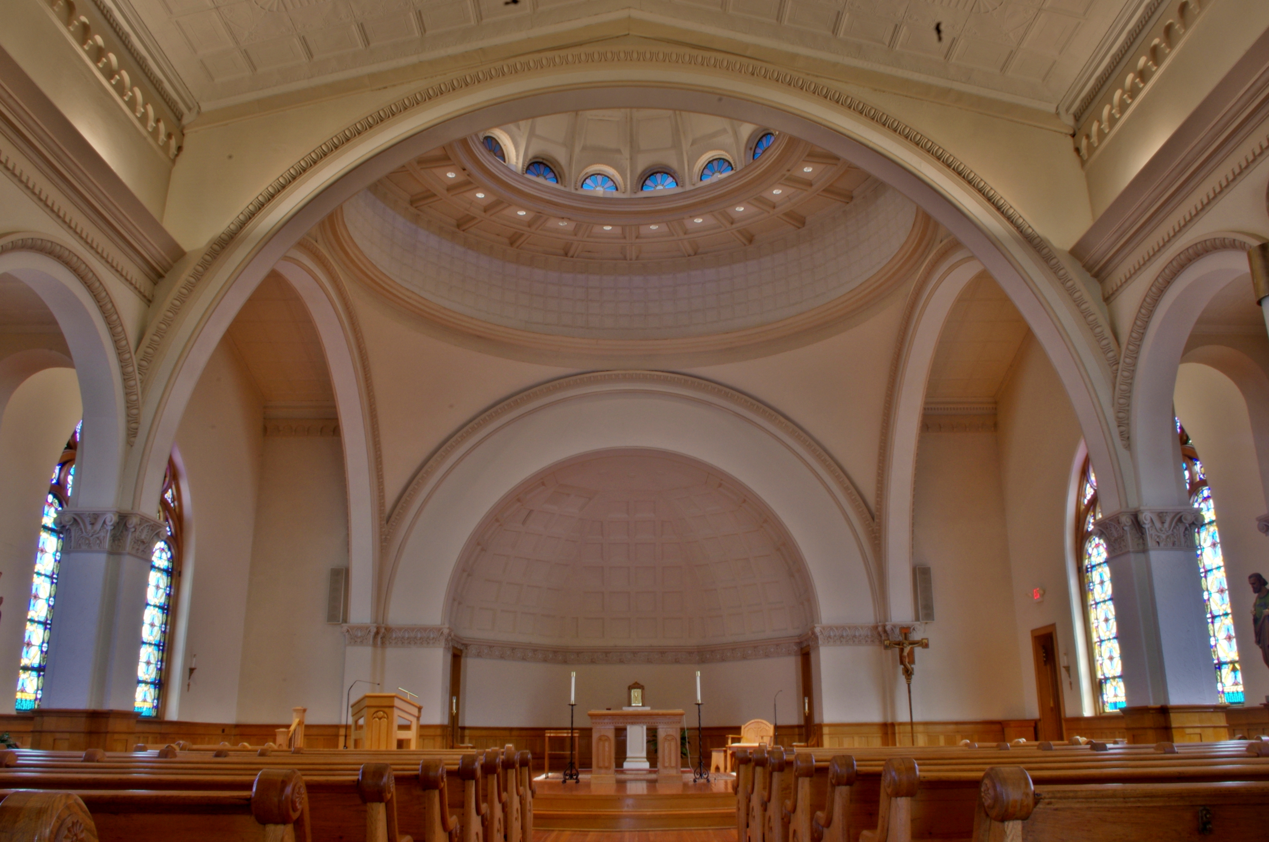 Saint Francis of Assisi Catholic Church (Columbus, Ohio) - nave